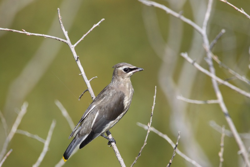 Cedar Waxwing (Bombycilla cedrorum)- juvenile